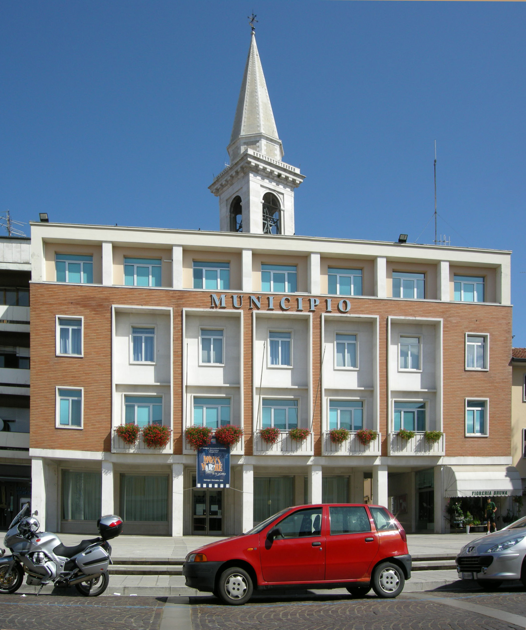 Codroipo